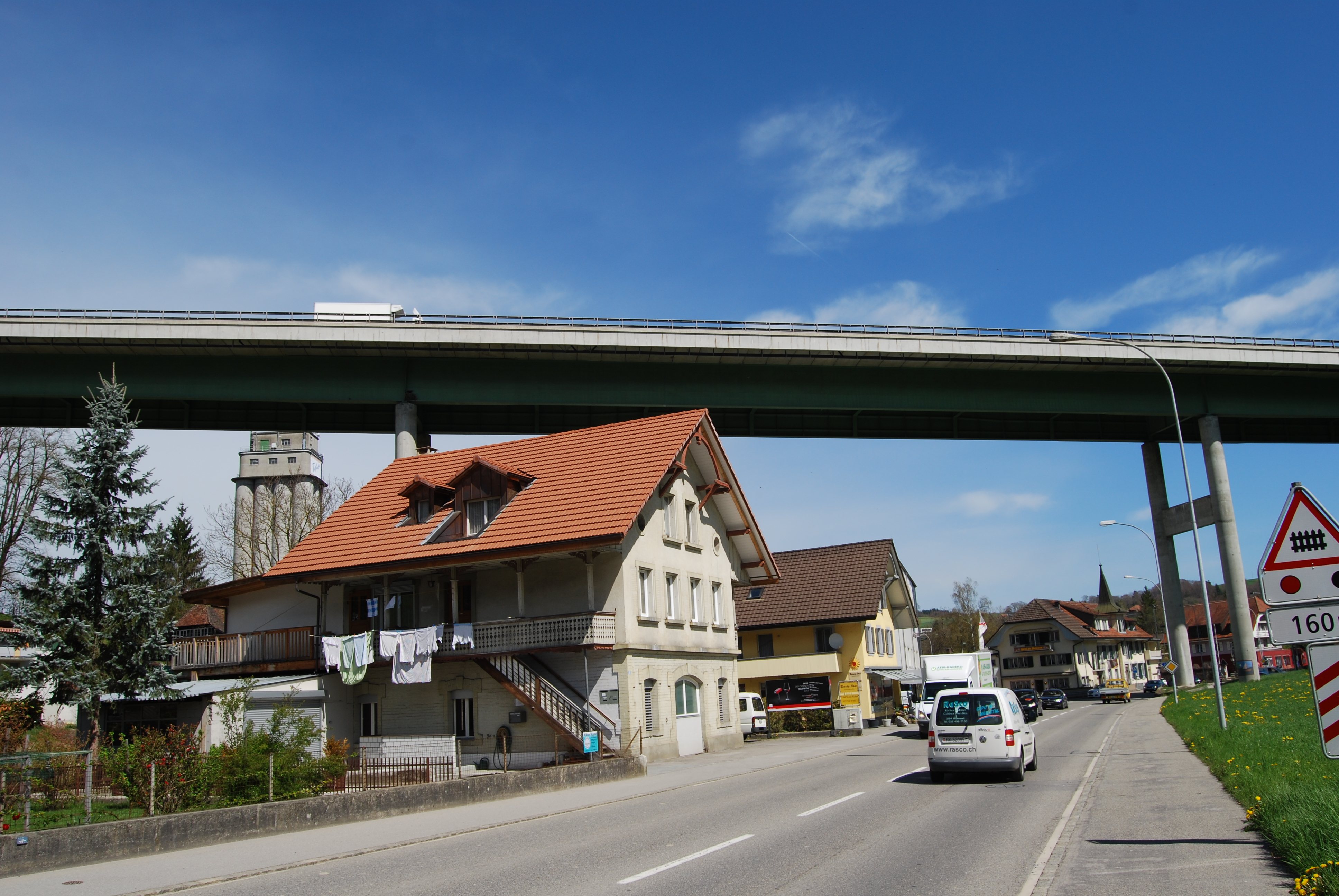 Bridge of A12 at Wünnewil-Flamatt, canton of Fribourg, SwitzerlandEsperanto: Ponto de A12 en Wünnewil-Flamatt, Kantono Friburgo, Svislando